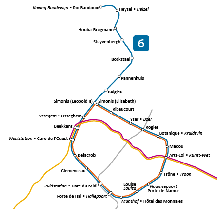 Itinerary map of Brussels metro line 6